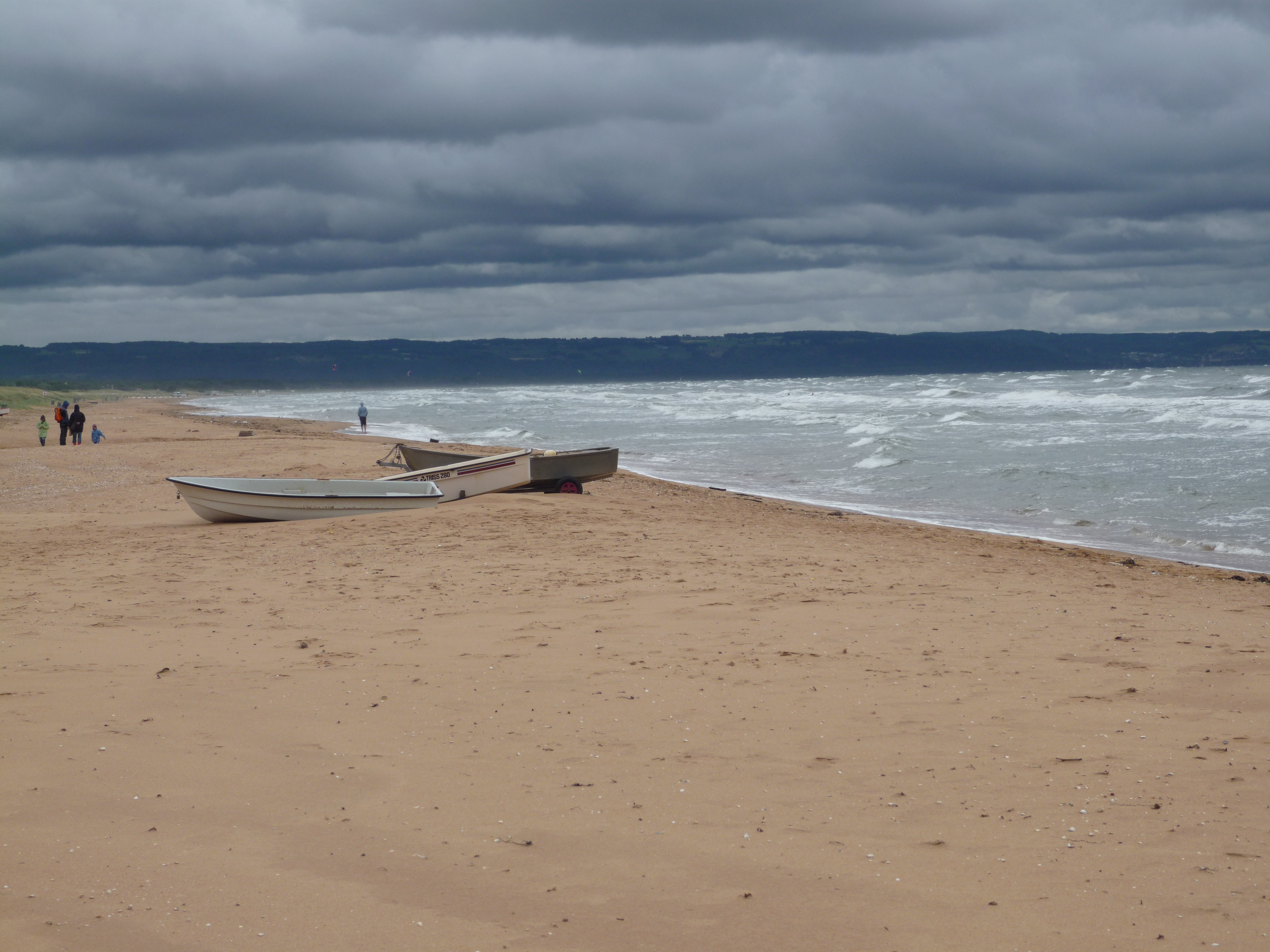 The beach at northern Mellbystrand